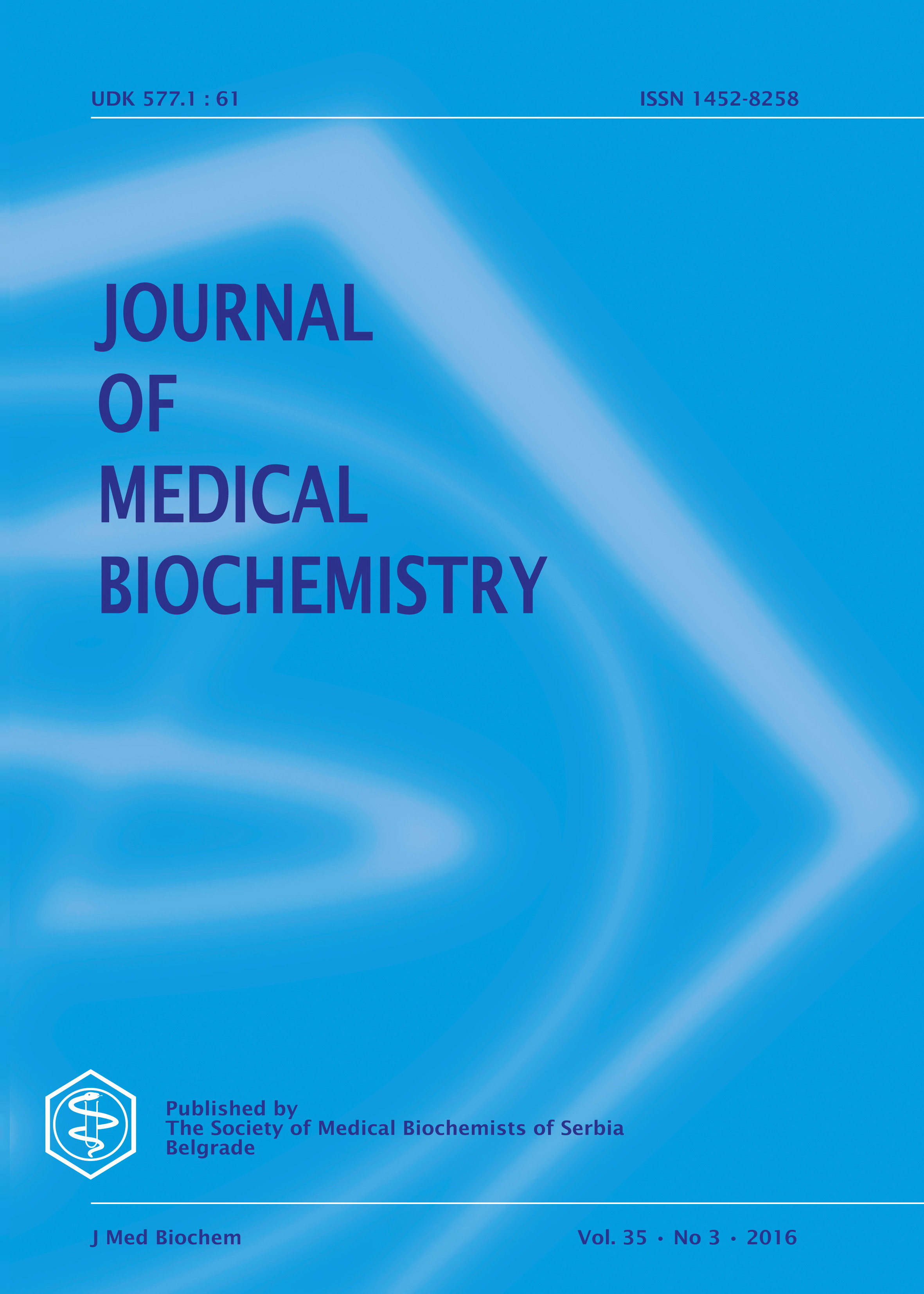 journal of medical biochemistry cover page